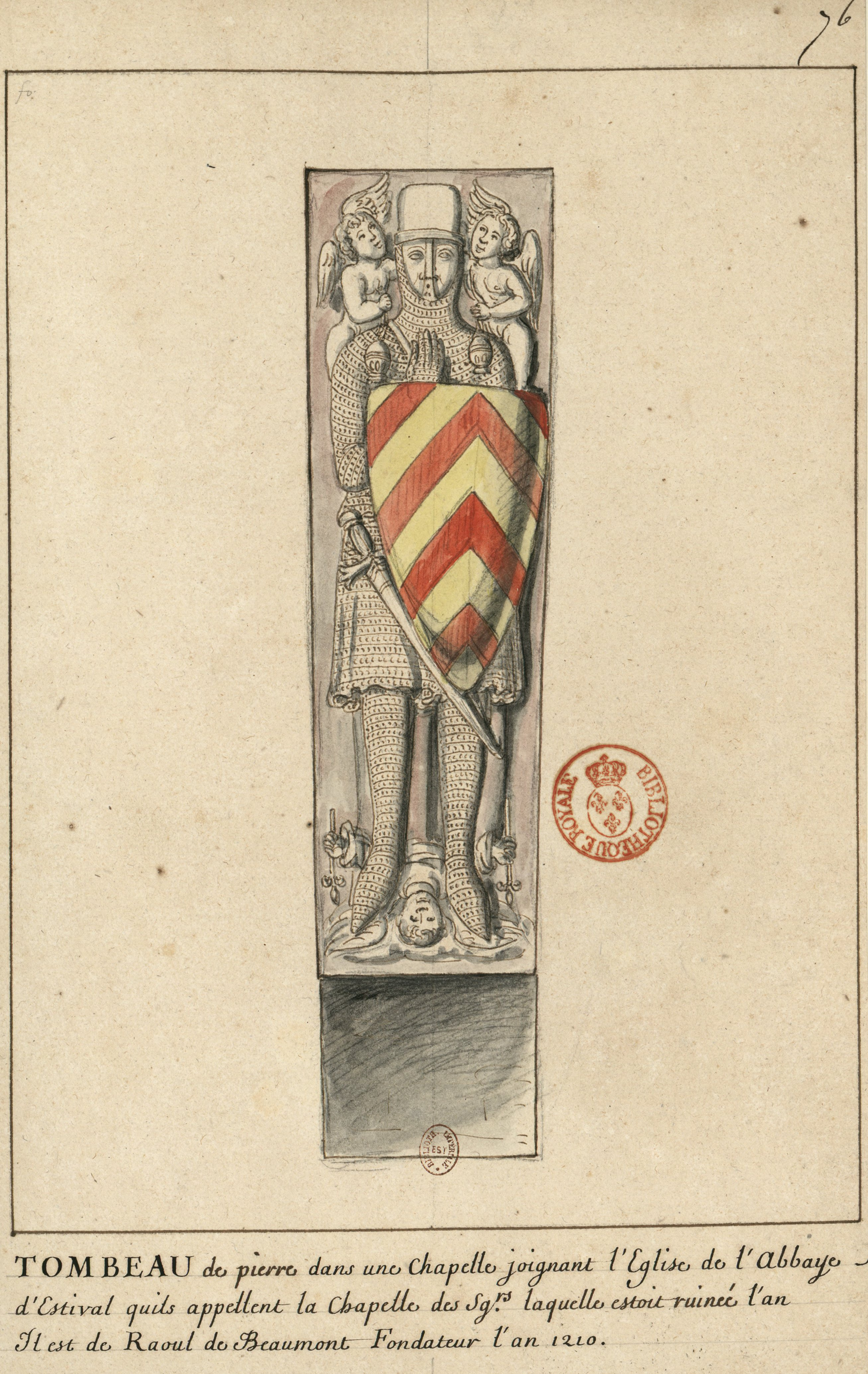 Illustration of the gisant of Raoul de Beaumont (III. or VI., 13th century) of the abbey Étival-en-Charnie in Chemiré-en-Charnie (Départment Sarthe) in France.